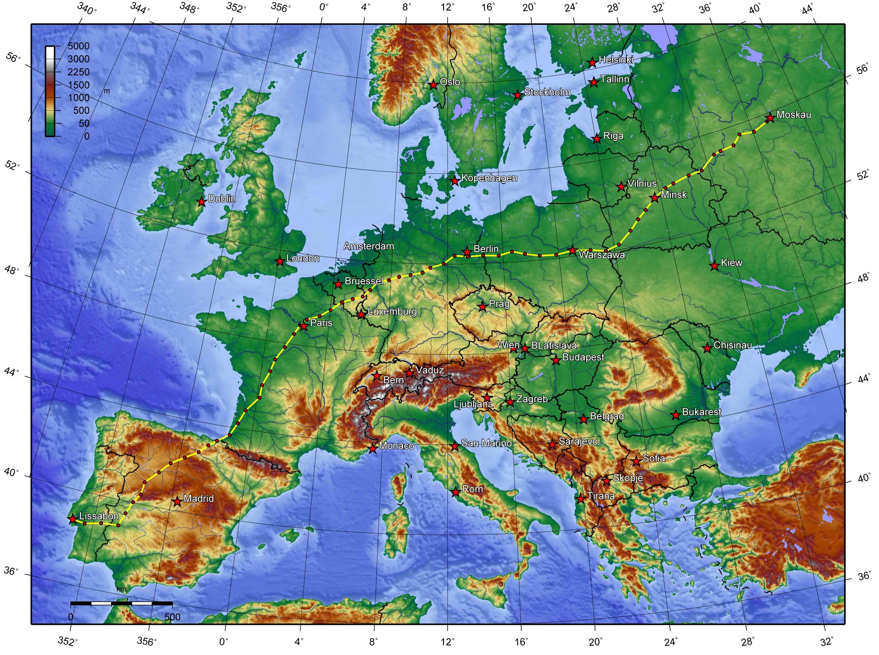 Map of Europe with the route and stages of Transeurope-Footrace 2003